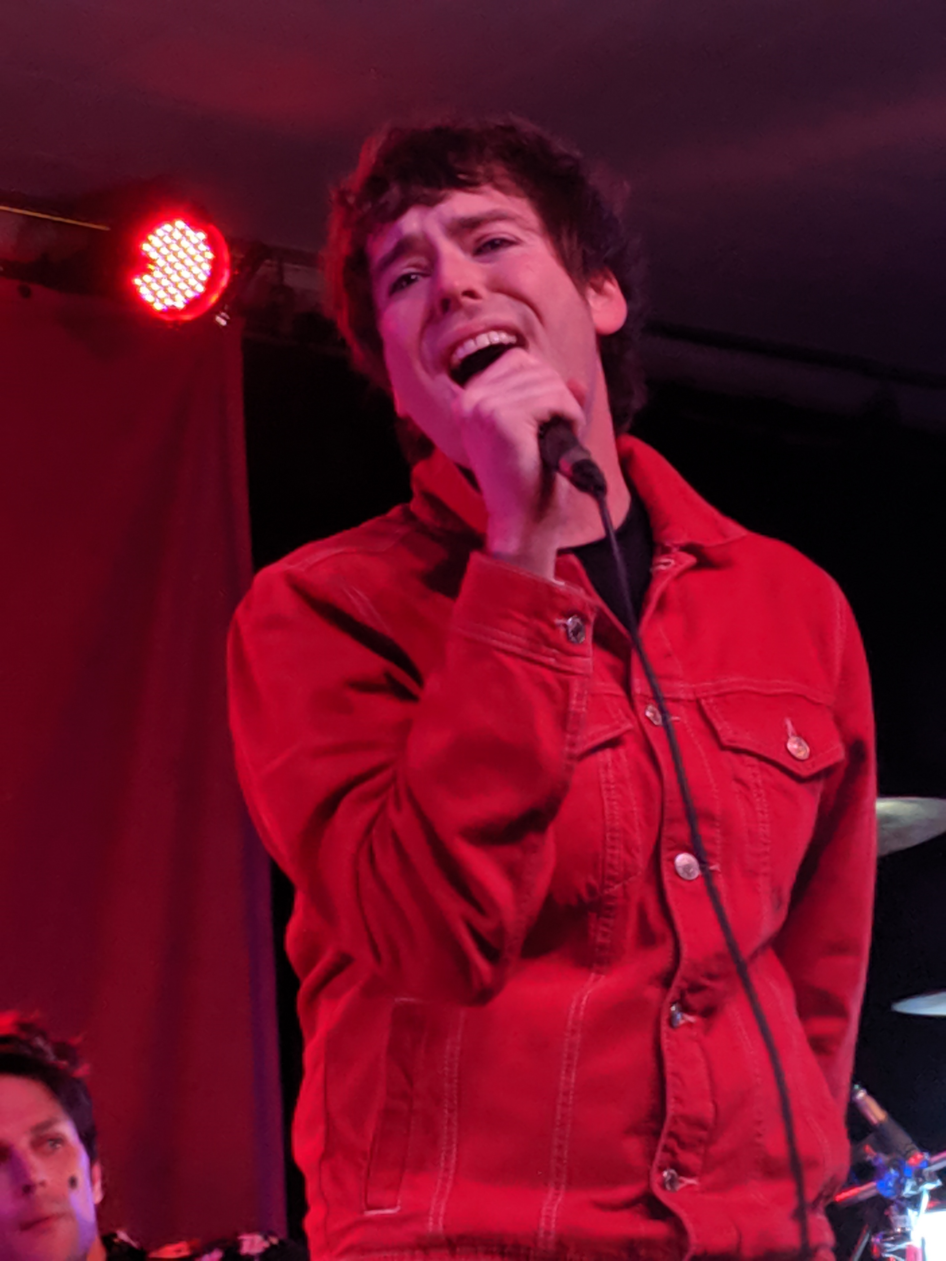 Cameron Walker performing with Twin XL on July 26th 2019. Opened for the band called I Don't Know How But They Found Me.